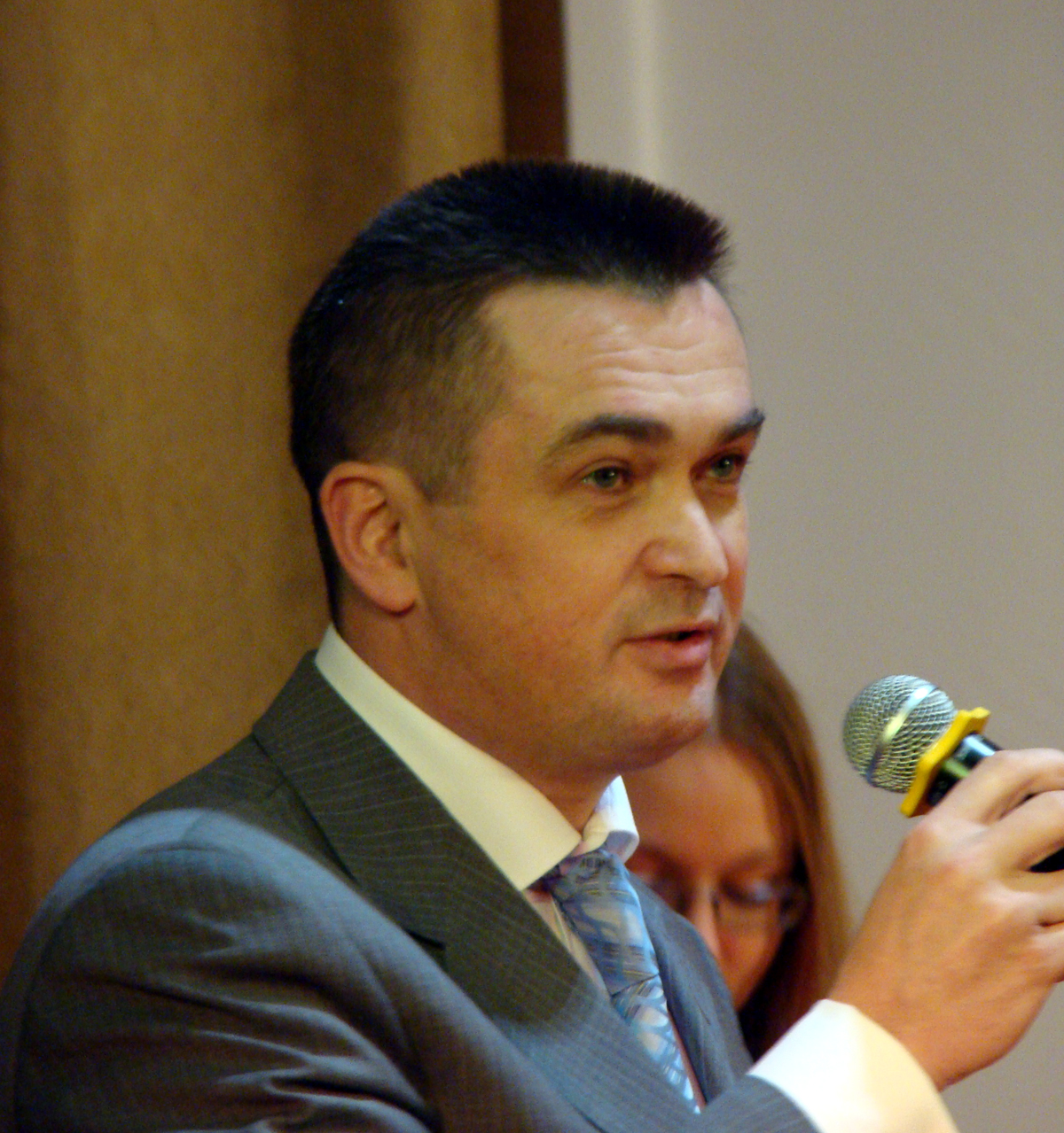 Vladimir Miklushevsky, rector of the Far East Federal University. Vladivostok city, Russia, 2011.